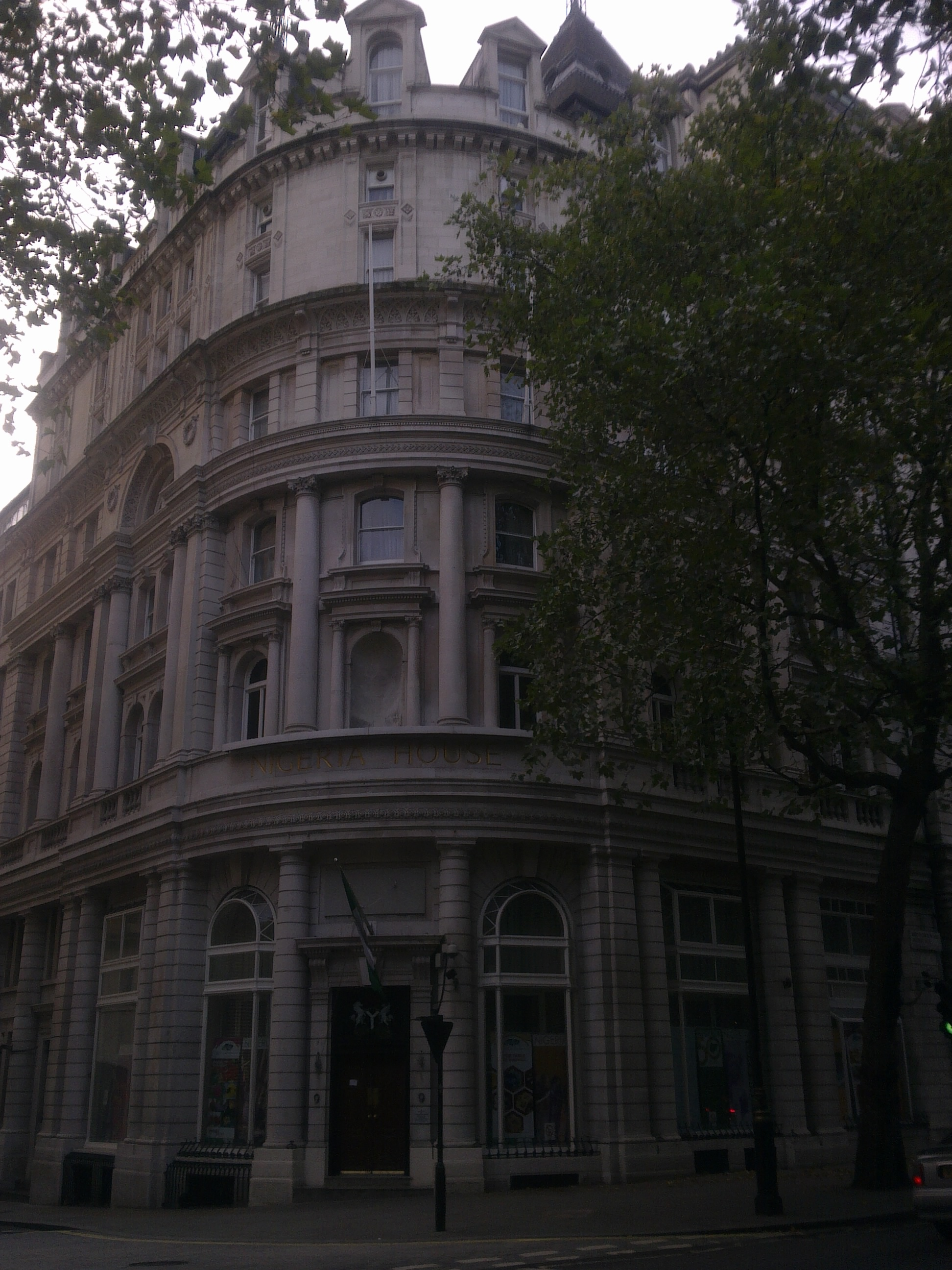 High Commission of Nigeria, London 1